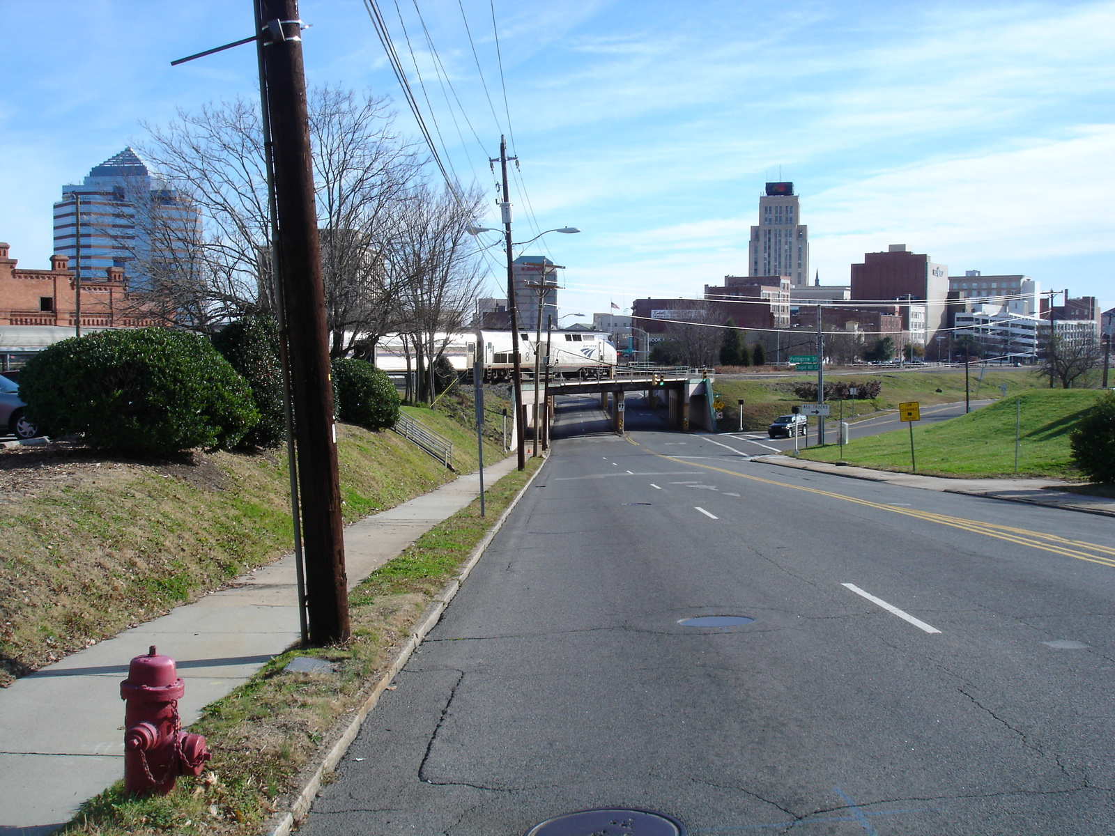 Amtrak's Carolinian service (#80) at Durham, North Carolina.